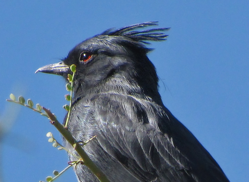 A Phainopepla in Tucson, Arizona, USA.